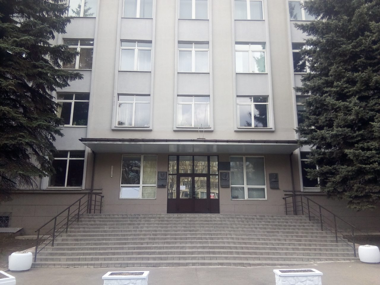 Entrance to the Institute of Physical Organic Chemistry of the National Academy of Sciences of Belarus (13 Surhanava Street, Minsk; 20th of April, 2019)